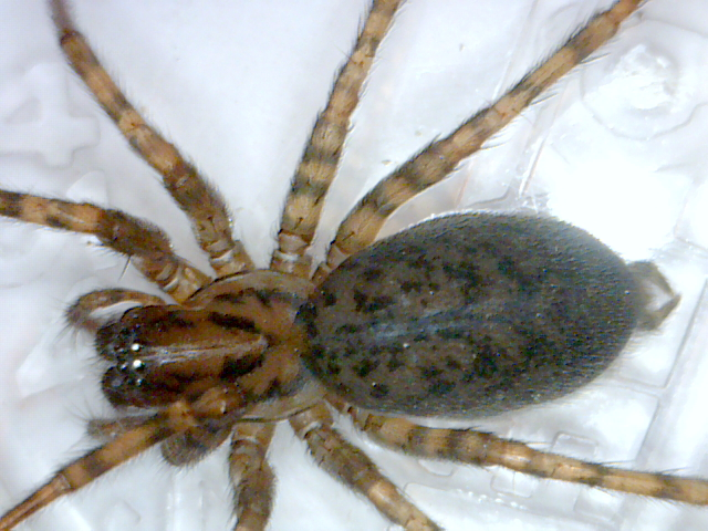 Coras genus female spider, 4 mm body length. Collected 36° N 80° W. Species is probably Medicinalis. Photographed with a digital microscope. Gamma adjusted.